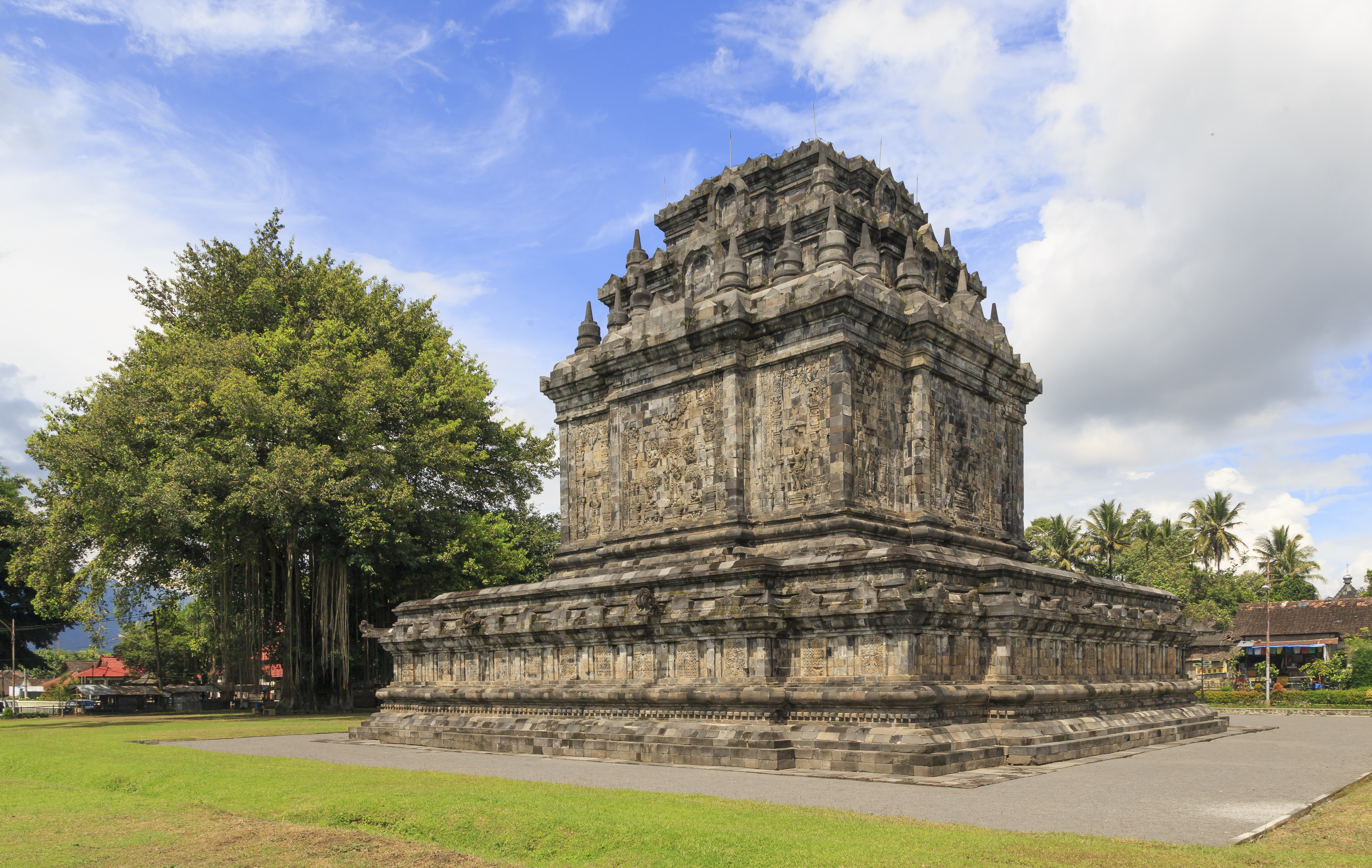 Mendut, Indonesia: Candi Mendut, a ninth-century Buddhist temple, located in Mendut village.